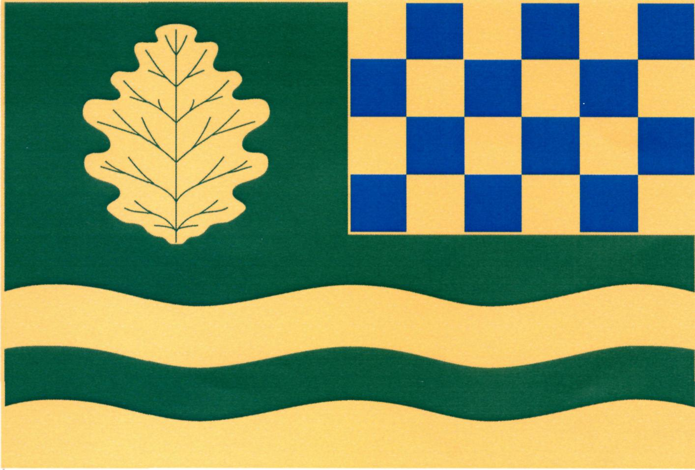 Municipal flag of Nový Vestec , District Prague East, Czech Republic